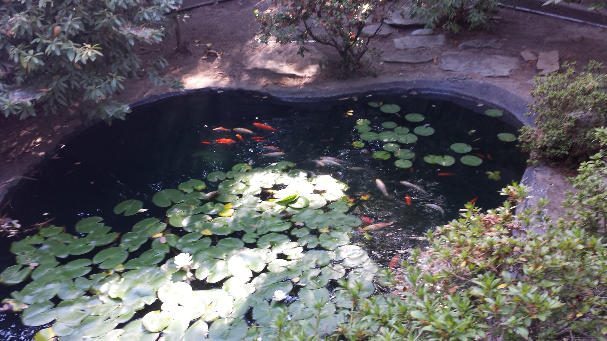 William Collins, photo